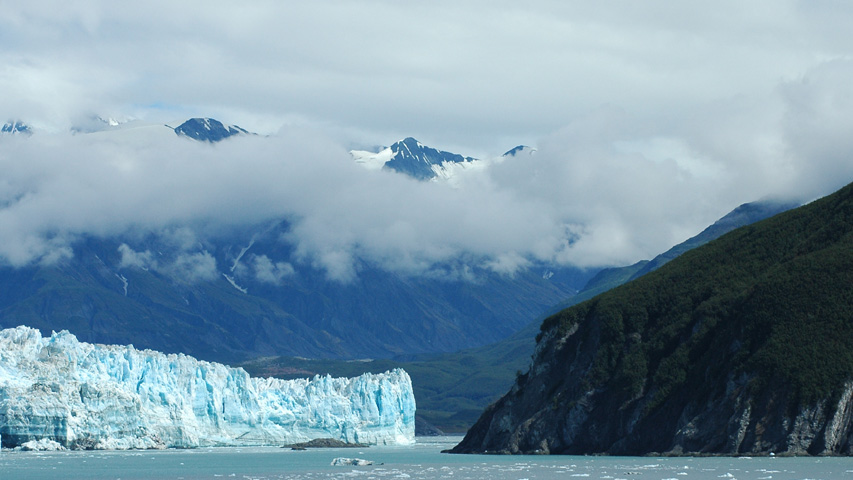 This picture shows the southeast edge of the Hubbard Glacier, beyond the gap is the Russell Fiord. This picture is looking to east direction from Disenchantment Bay, Alaska. The gap was periodically blocked by the glacier and the Russell Fiord turned into a lake collecting freshwater run-off from the glacier.